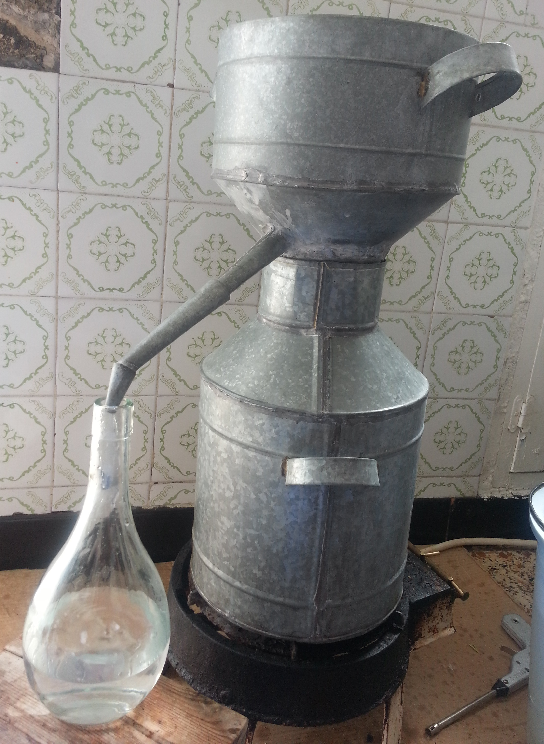 Orange flower water: Traditional distillation of fresh bitter-orange blossoms